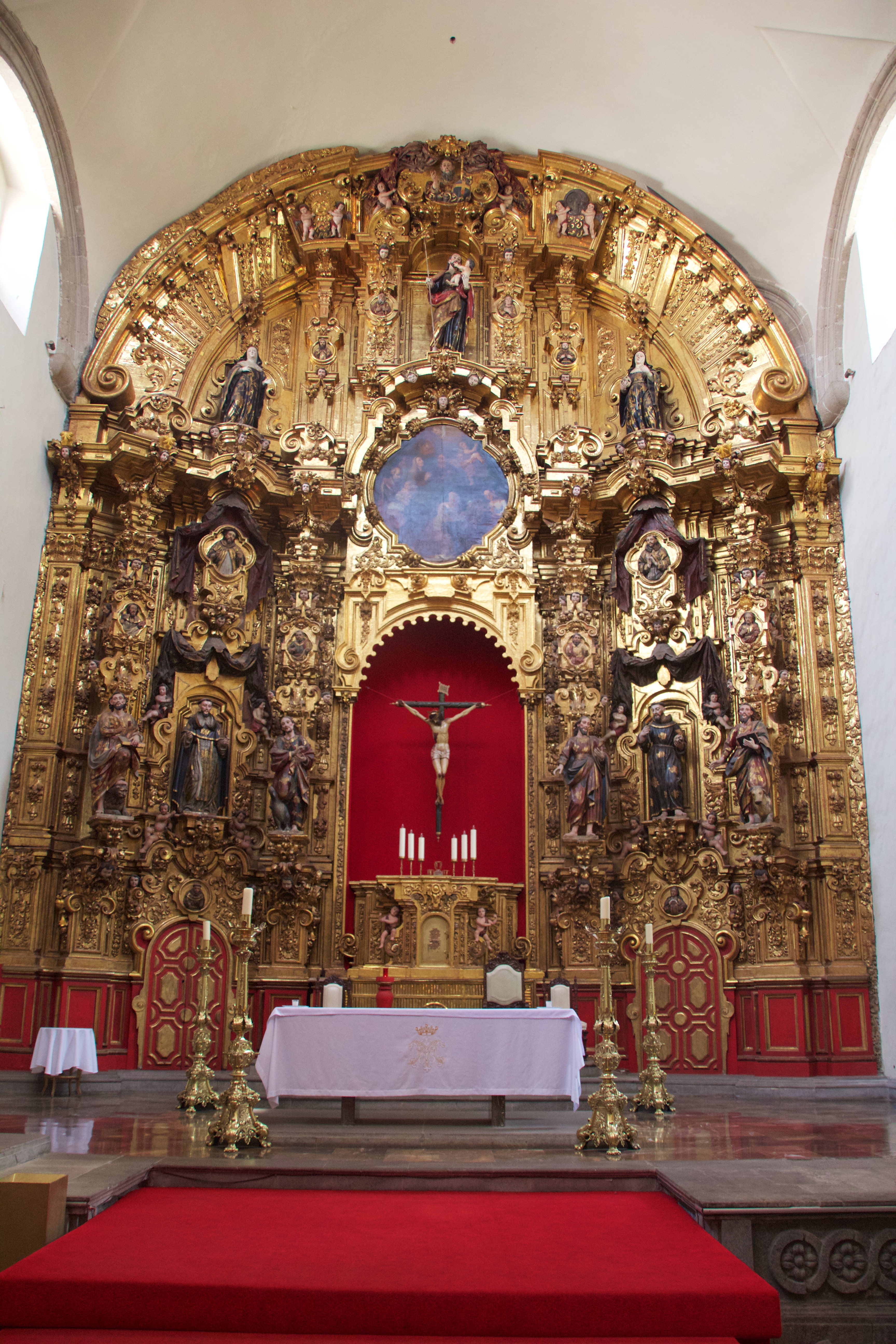 Tempolo de Regina Coeli, Mexico City, Mexico.